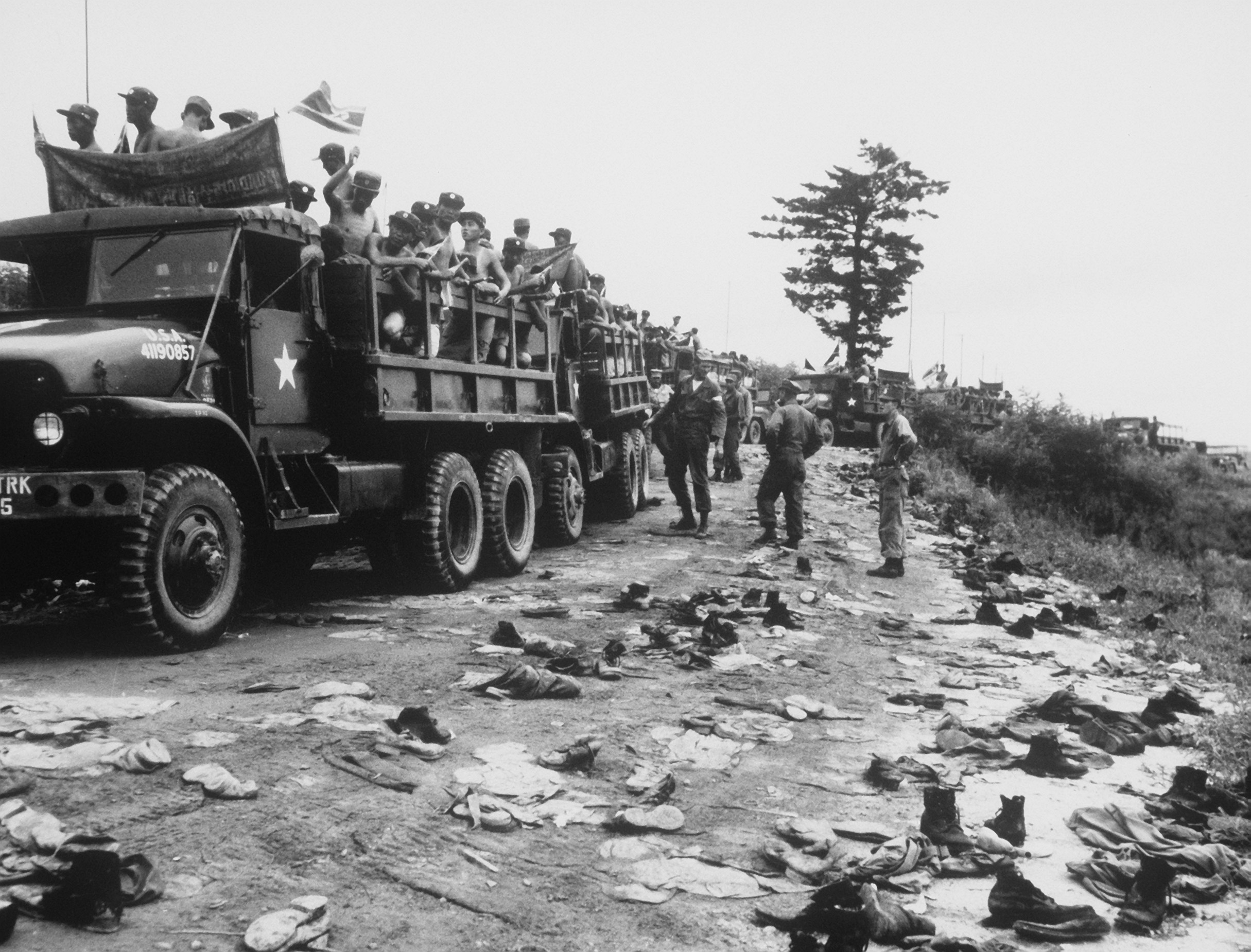 An American convoy transporting North Korean POWs to their receiving center, Panmunjom, Korea. AIR AND SPACE MUSEUM#: 84558 AC